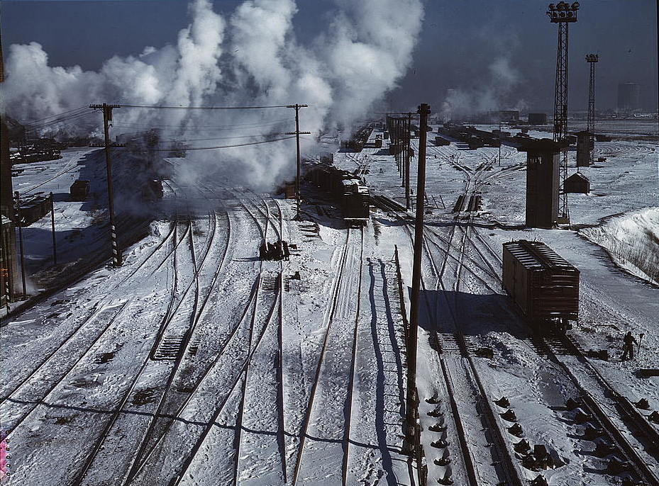 Belt Railway of Chicago, looking toward the west yard of clearing yard, taken from bridge of hump, Chicago, Illinois. Notes: Title from FSA or OWI agency caption. The black-and-white photos of this scene were originally miscaptioned as "Indiana Harbor" railroad, which lead to the misassociation of this photo with Indiana Harbor. Photo shows the clearing yard at the Belt Railway Company of Chicago, taken from a structure above the hump tracks. (Source: Flickr Commons project and Bill Gustason, Chicago Area Rail Junctions, Hayford/Clearing Yard, 2008) Transfer from U.S. Office of War Information, 1944. Subjects: Belt Railway Company of Chicago World War, 1939-1945 Snow Railroad shops & yards United States--Illinois--Chicago Format: Transparencies--Color Repository: Library of Congress, Prints and Photographs Division, Washington, D.C. 20540 USA, Part Of: Farm Security Administration - Office of War Information Collection 12002-2 (DLC) 93845501 General information about the FSA/OWI Color Photographs is available at Persistent URL: Call Number: LC-USW36-626